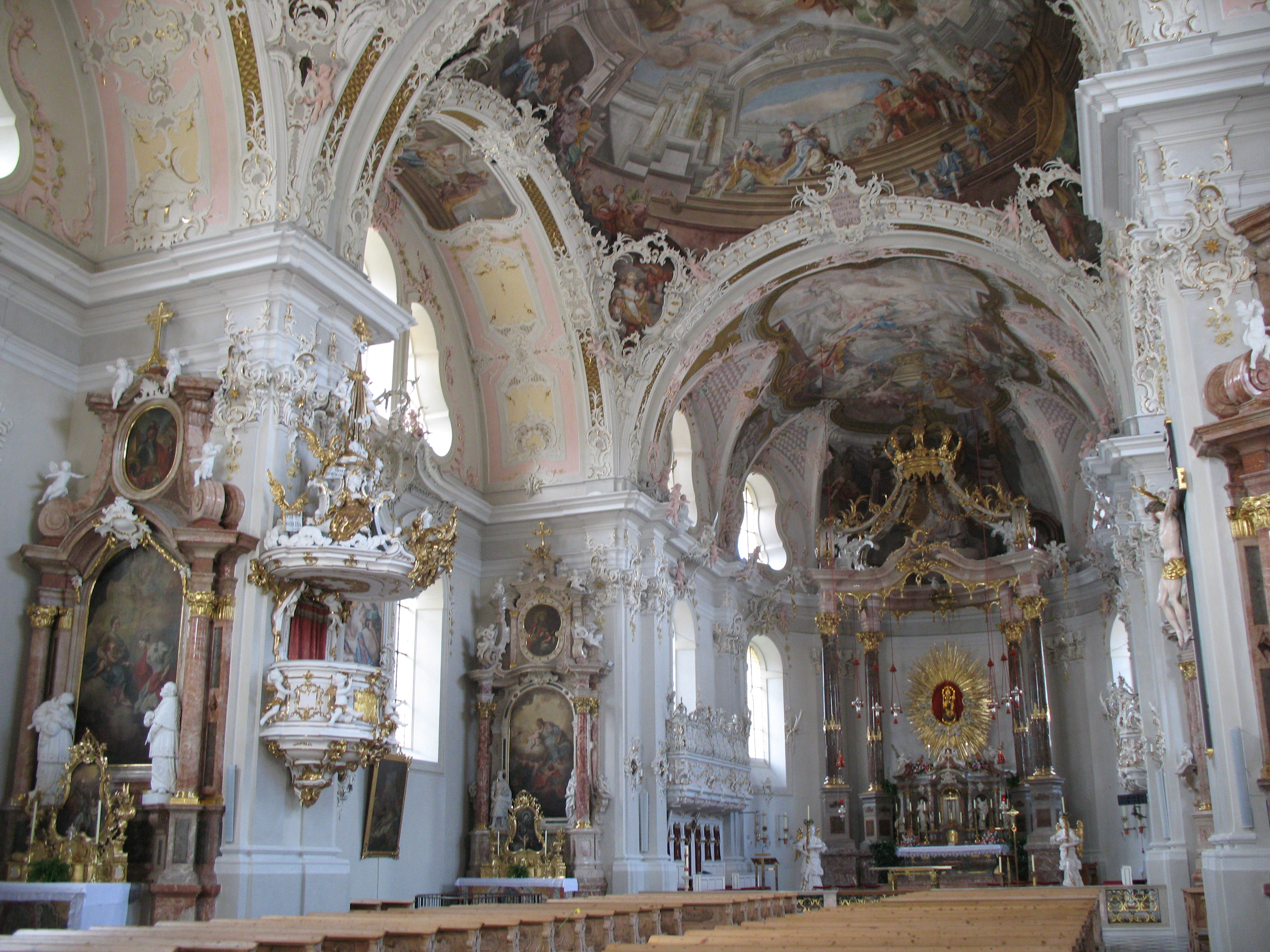 Basilica of Wilten, Innsbruck, Austria